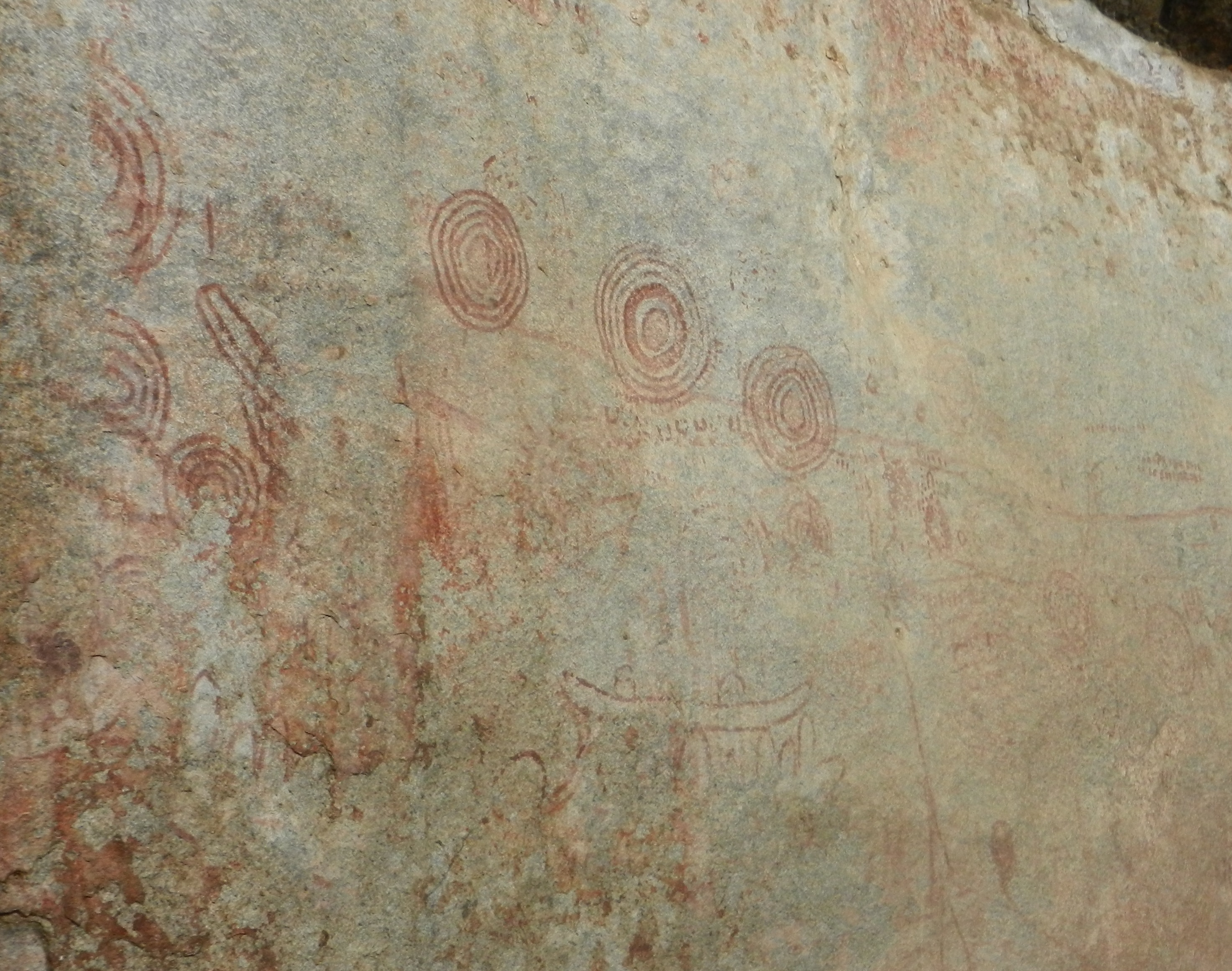 Detail of pannel 2. Part of the Rockpaintings in Nyero village, Kumi District, Uganda